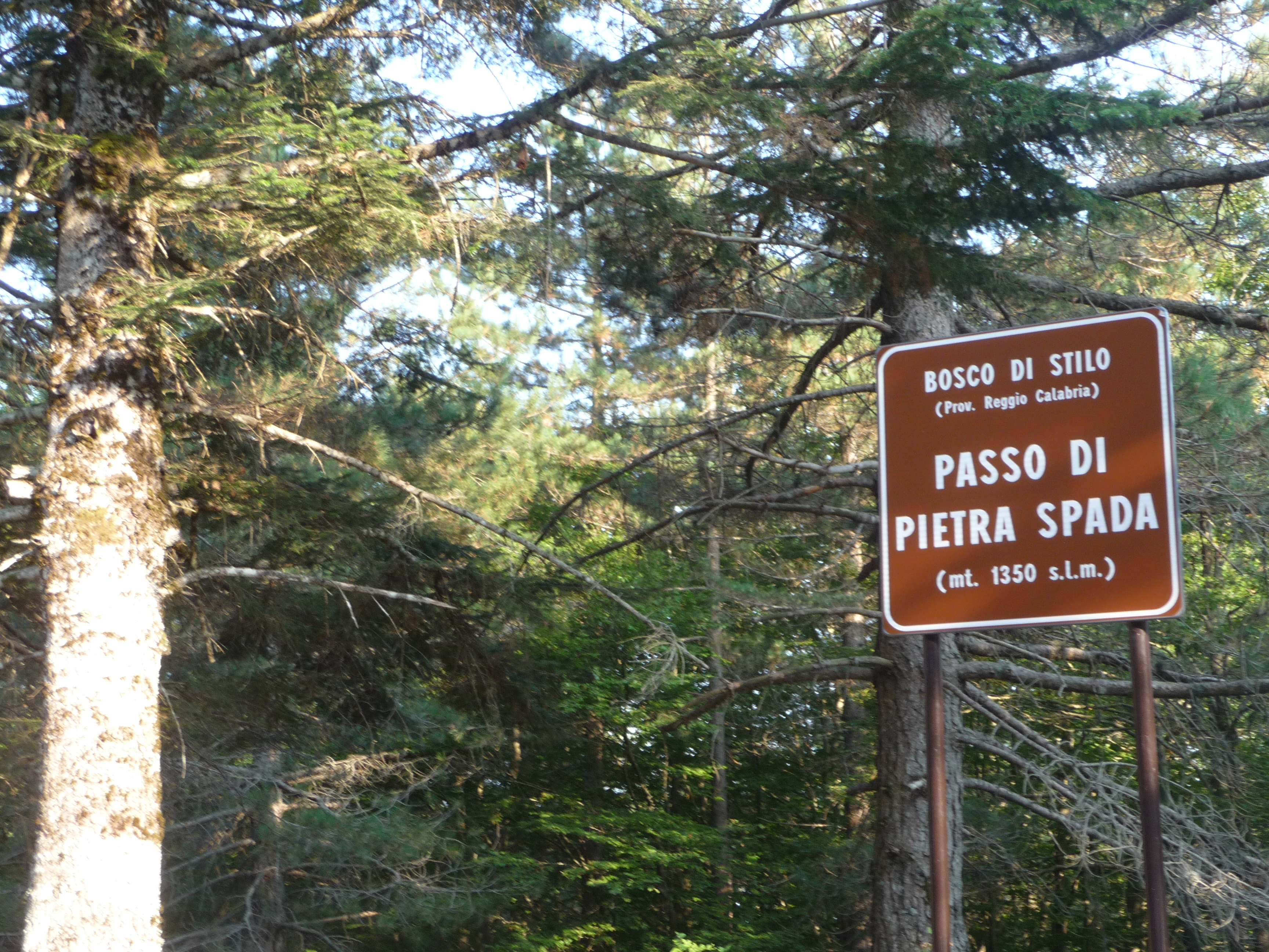 Passo di pietra Spada (sign of a Mountain pass in Calabria)